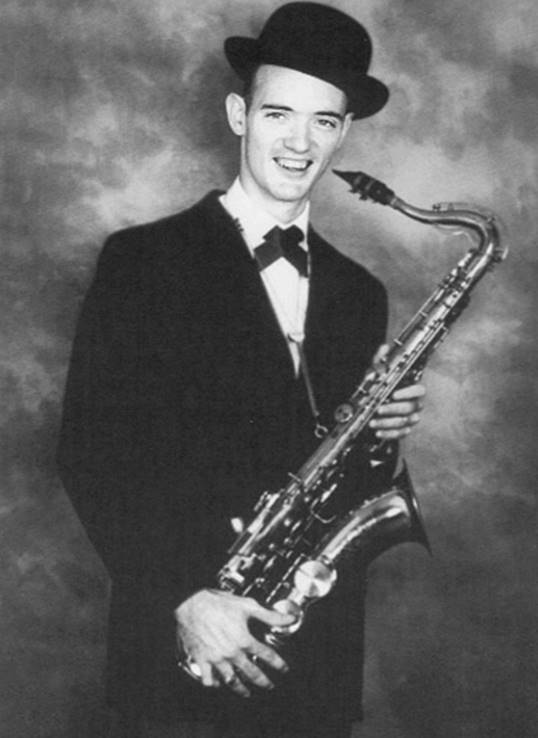 Martin Willis profile photo with Tenor Saxophone.